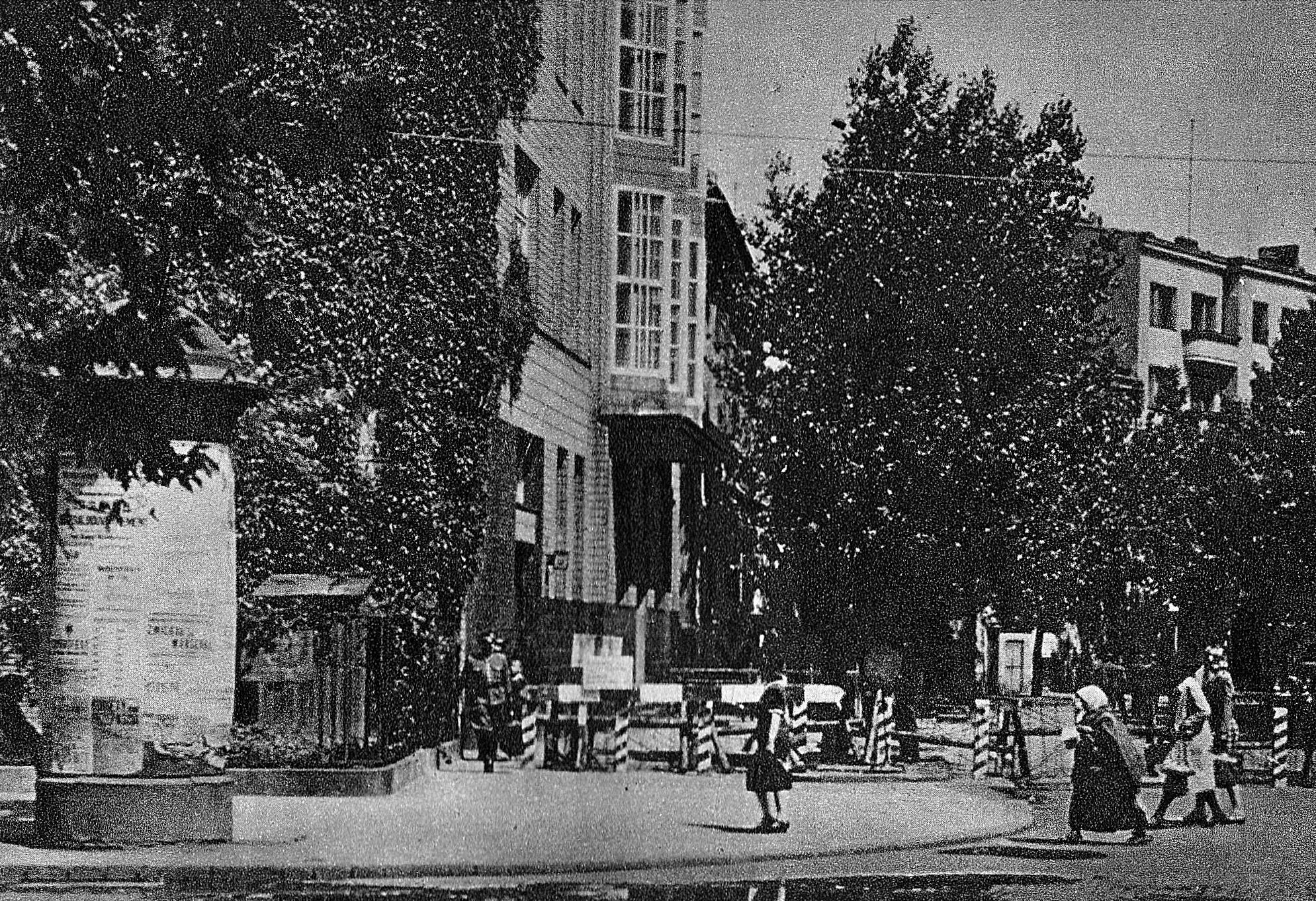 Litewska Street near Marszałkowska Street in Warsaw during the German occupation